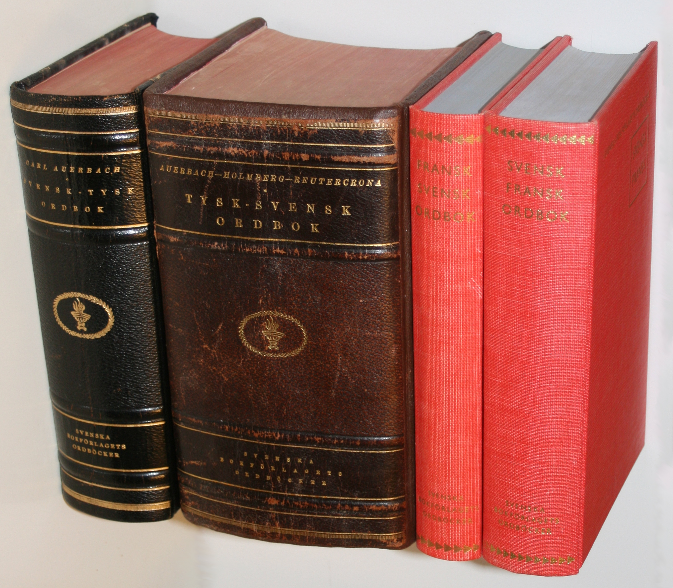 Spines of some dictionaries, left to right: Swedish-German and German-Swedish by Carl Auerbach, French-Swedish by Thekla Hammar and Swedish-French by Johan Vising